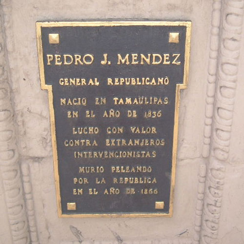 Pedro Jose Mendez plaque